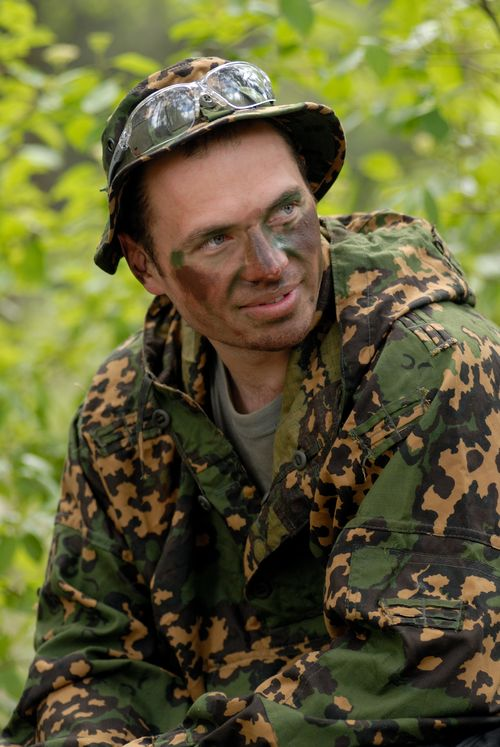 Maksym Shapoval, Colonel of Ukrainian Chief Directorate of Intelligence